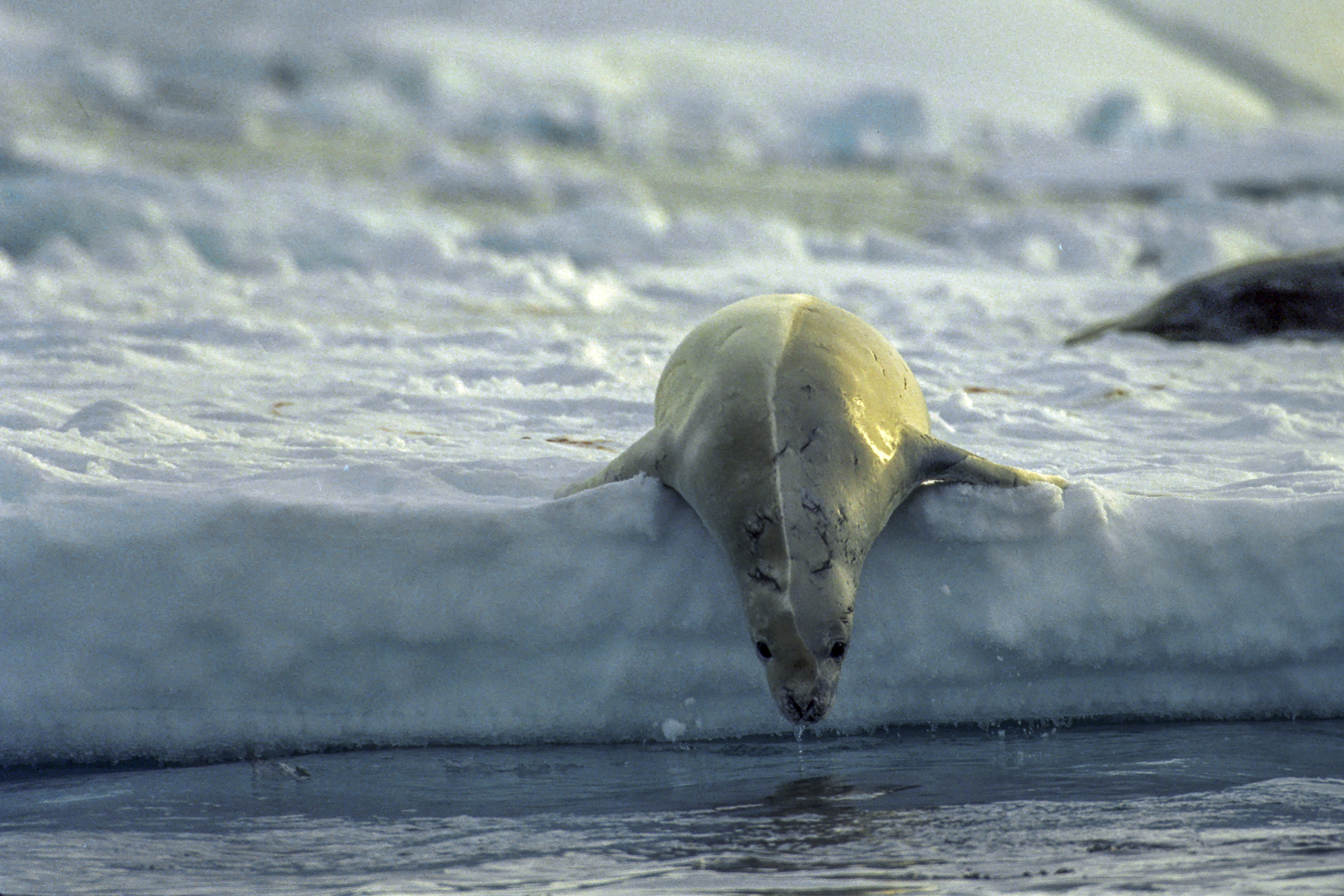 Antarctic, Crabeater Seal, seals, marine mammals